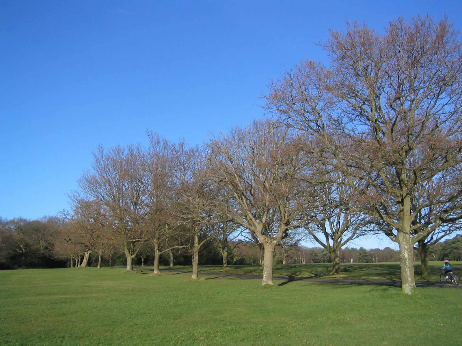 Southampton Common, 2005-01-23. Photo taken by Alan Ford.